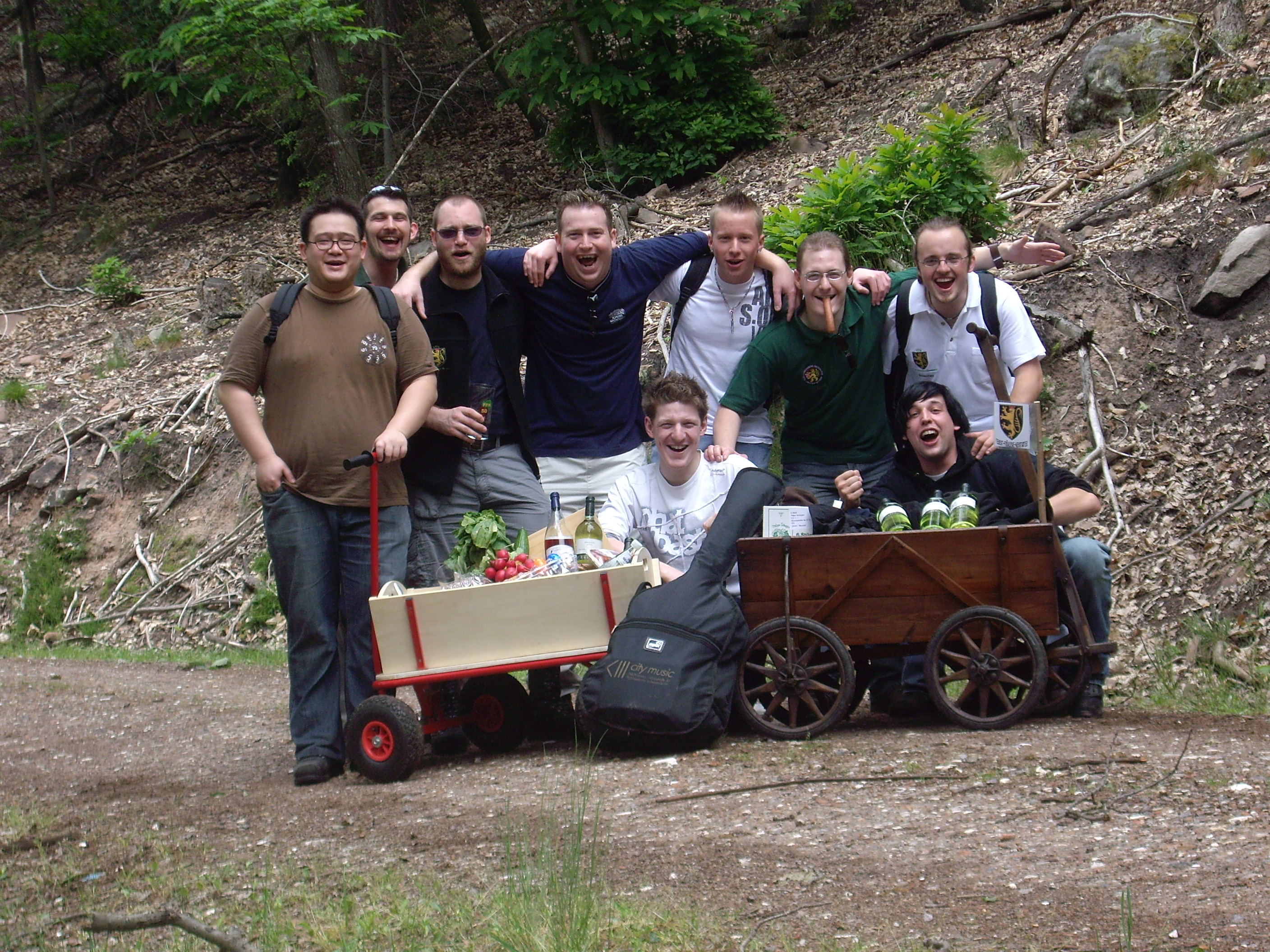 Hiking tour on father's day, Vatertagswanderung, in Germany